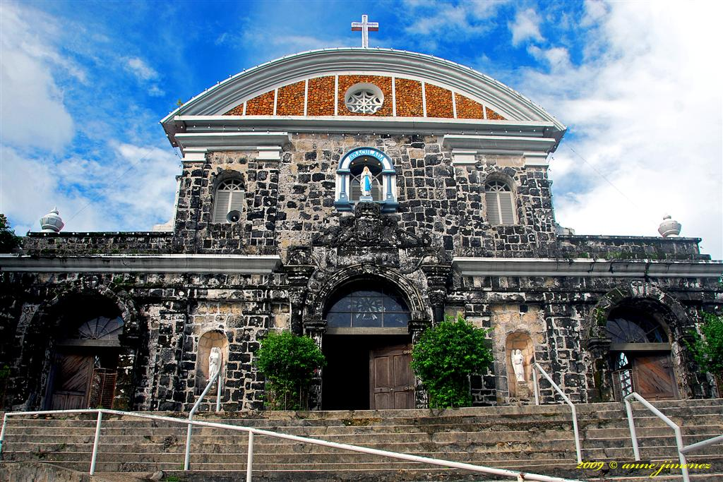 Imaculada Concepcion Church, Culion, Calamian islands (Palawan)